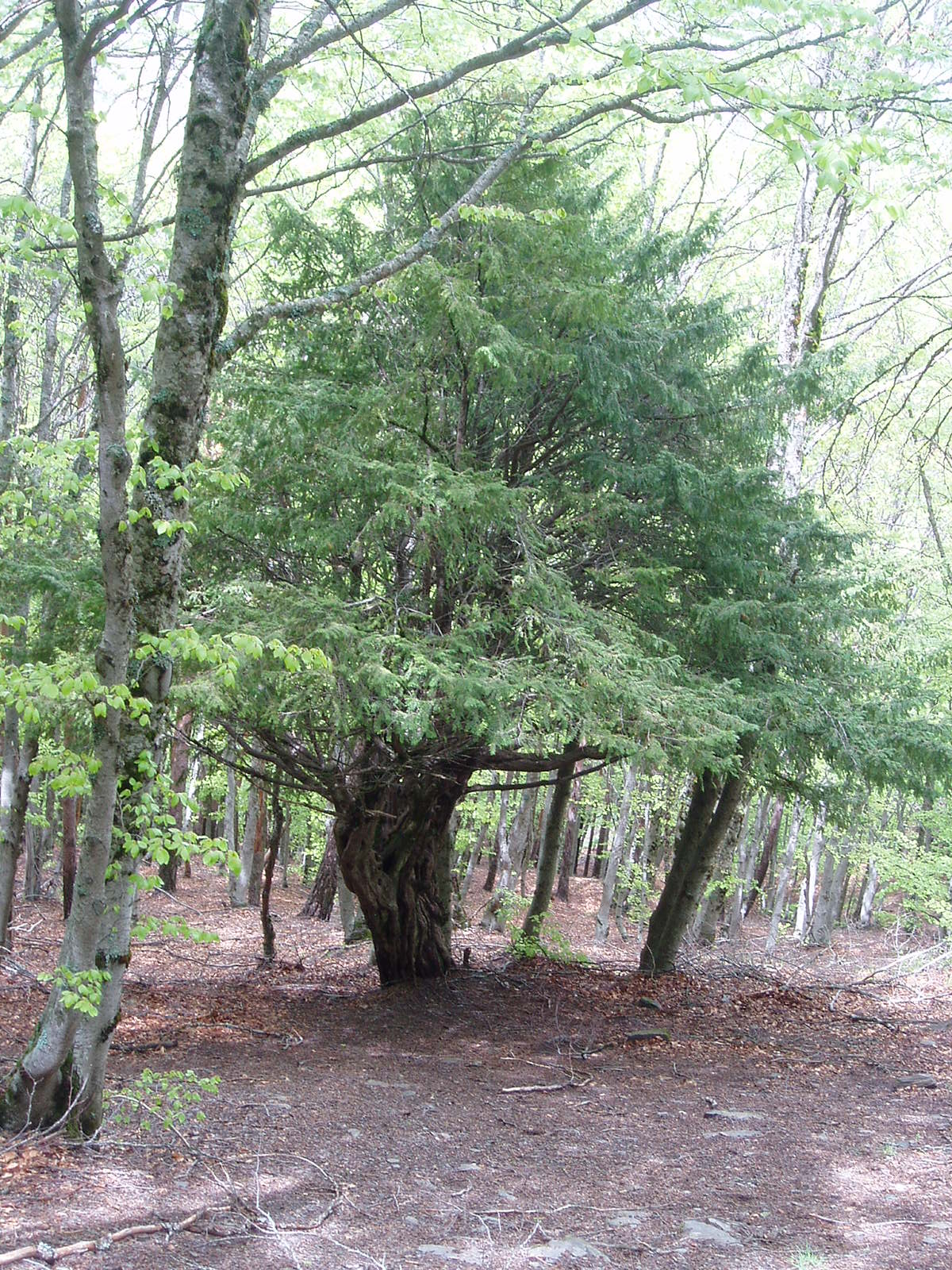 A yew in the Hayedo de Tejera Negra.